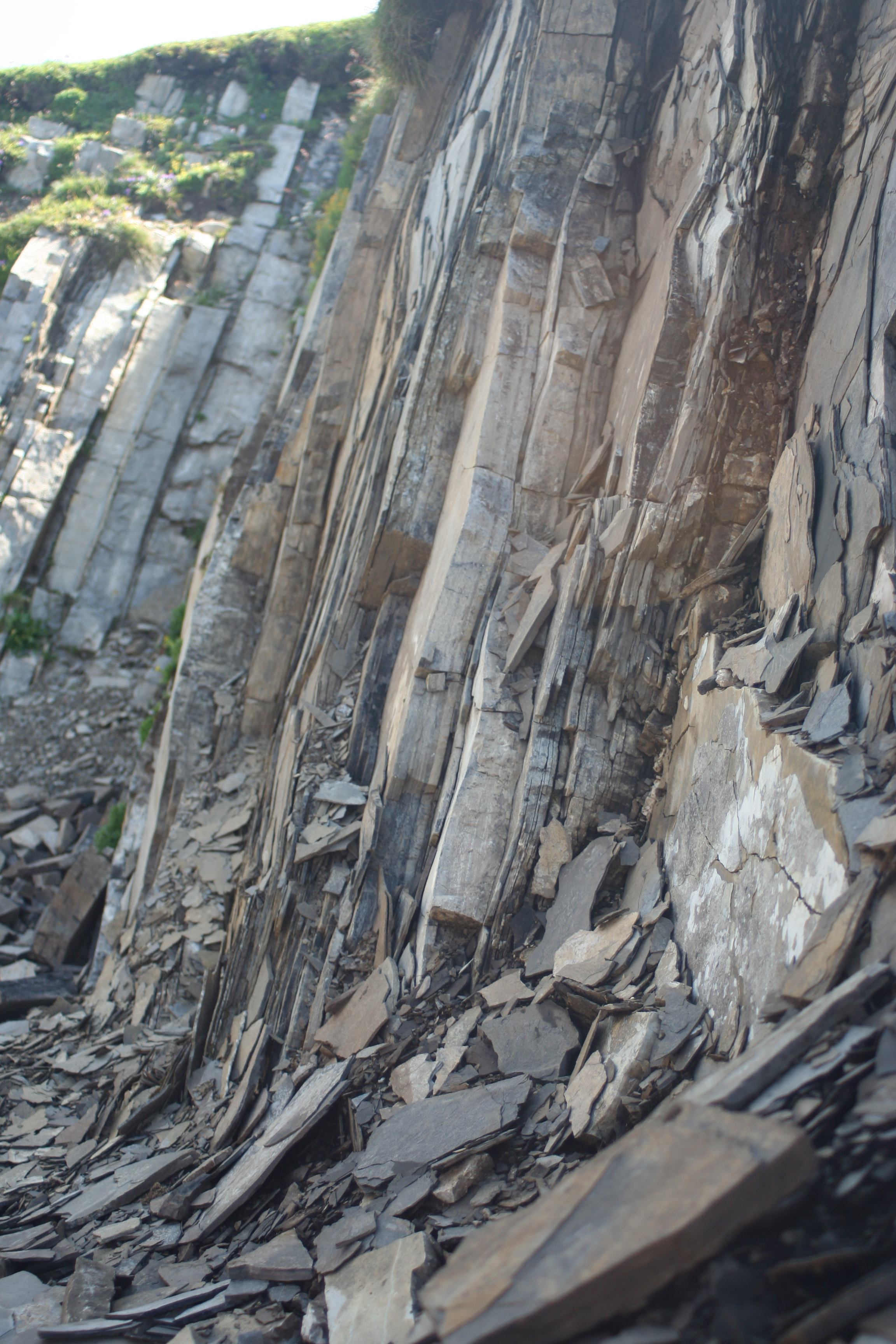 Stones of the Seefeld-Formation which belong to the Hauptdolomit-Group, near the Nördlinger Hütte, Seefeld, Karwendel, Austria